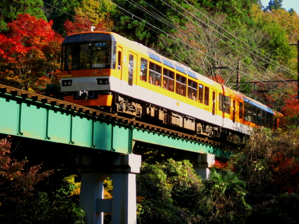 Eizan Electric Railway Type Deo 900 passing "maple tree tunnel" between Ninose and Ichihara